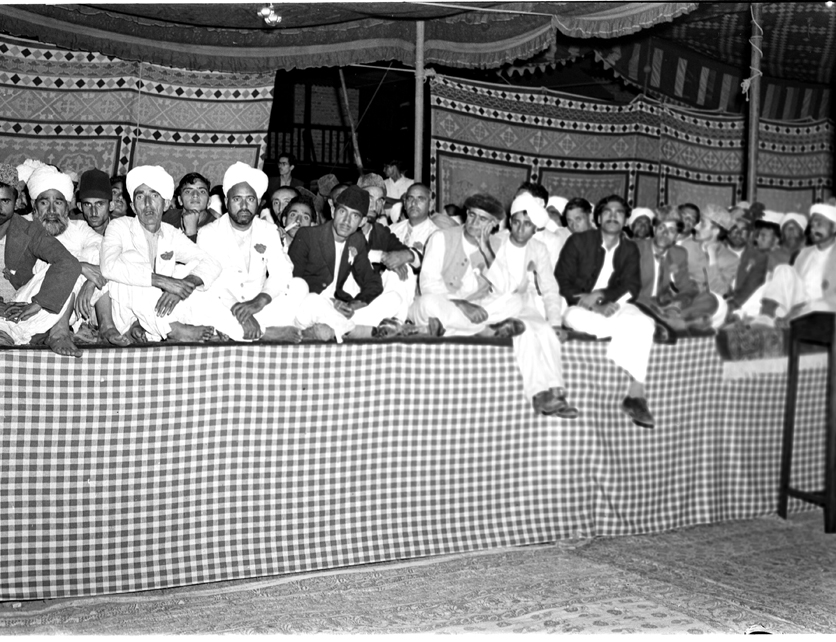 Delegates from various parts of Jammu and Kashmir who attended the Jammu & Kashmir National Conference held at Srinagar from 24th to 27th September, 1949.